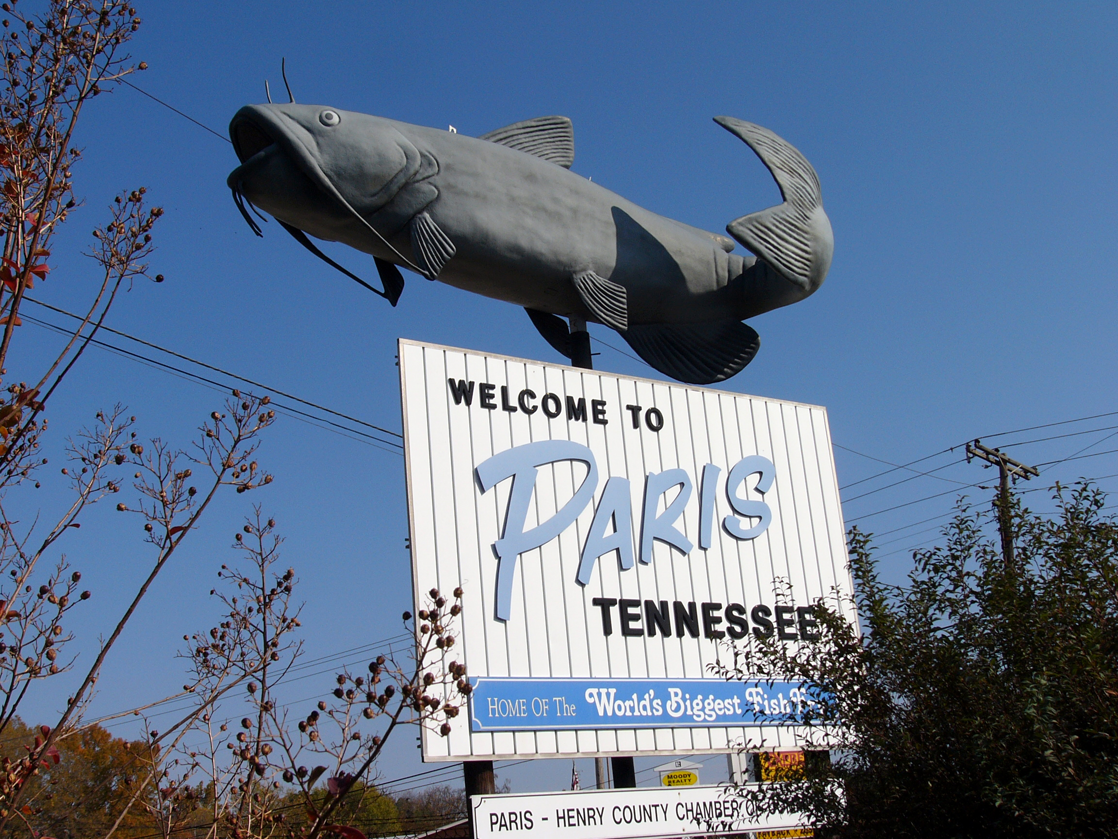 Giant catfish saying "Welcome to Paris, Tennessee"